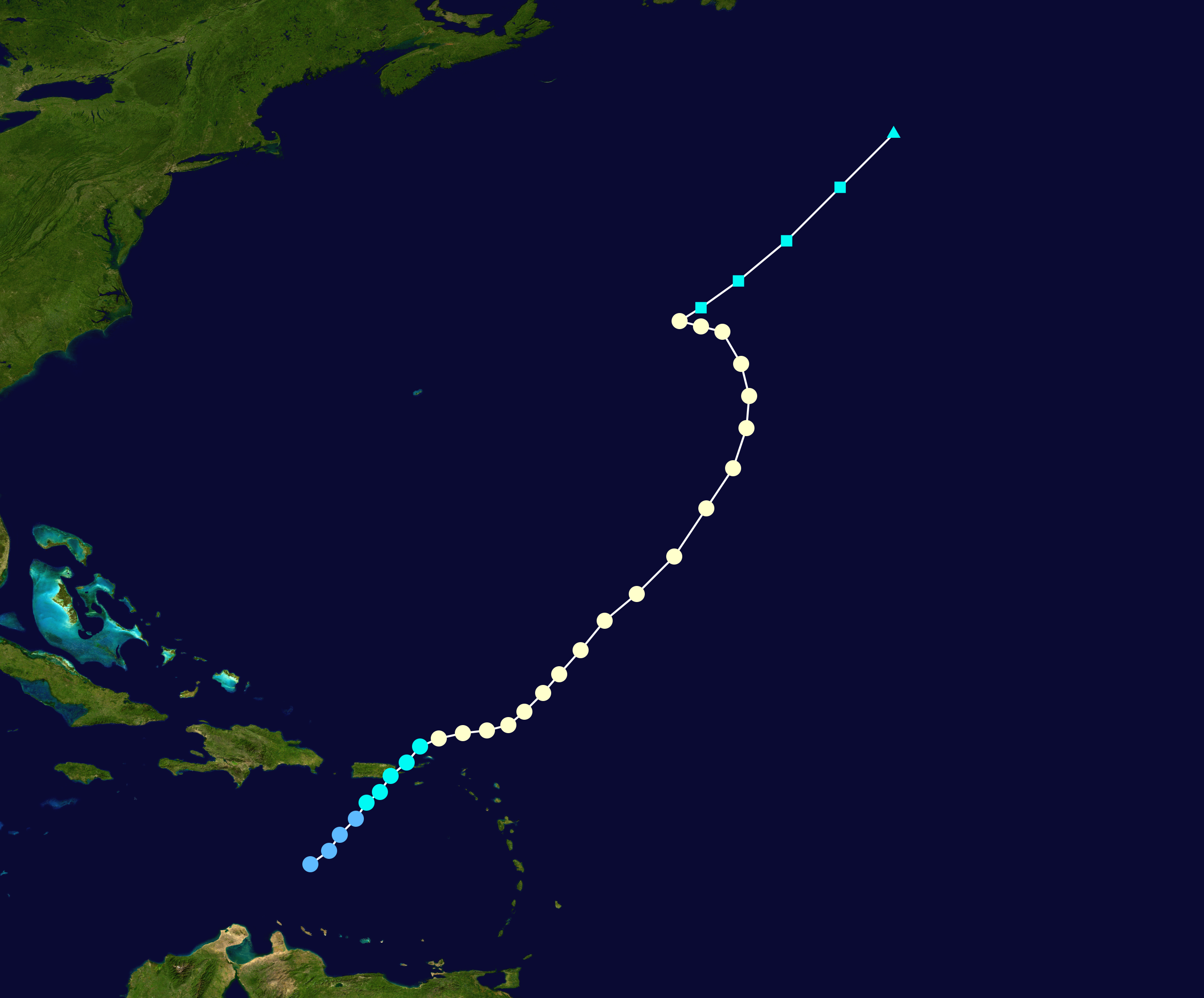 Hurricane Klaus (1984) track. Uses the color scheme from the Saffir-Simpson Hurricane Scale.